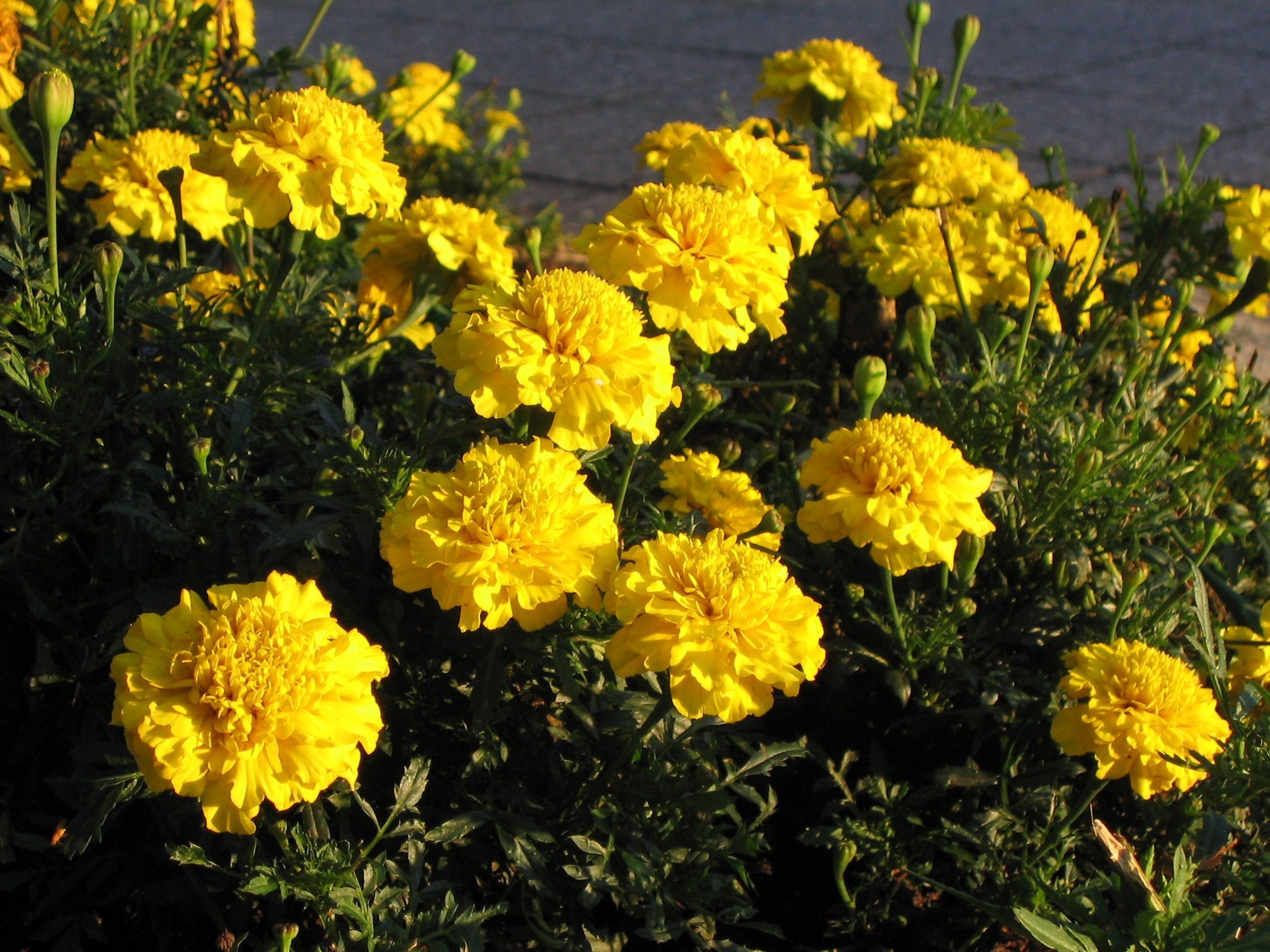 Tagetes (patula?) on a street in Titisee-Neustadt, Germany